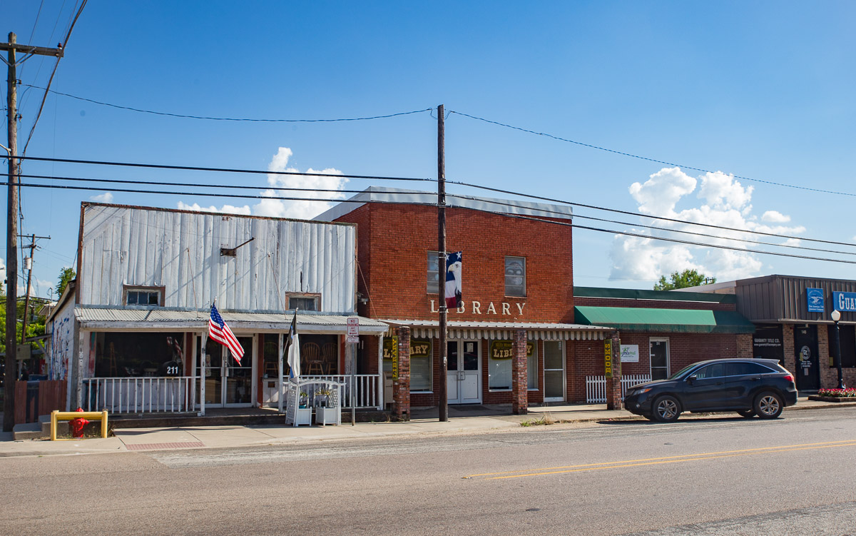 Downtown Centerville, Texas